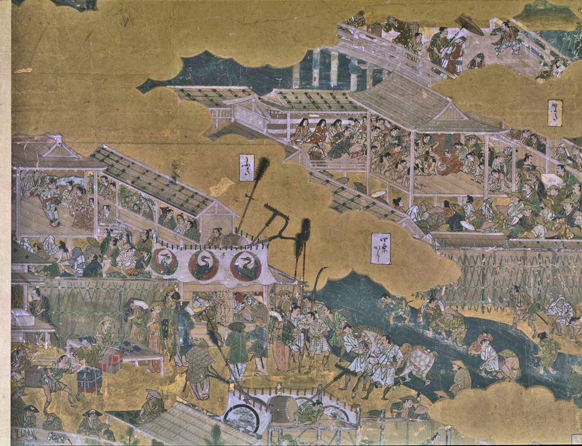 Street & people in 17C's Kyoto especially watching play "Kabuki"